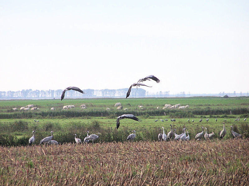 Grus grus in Germany